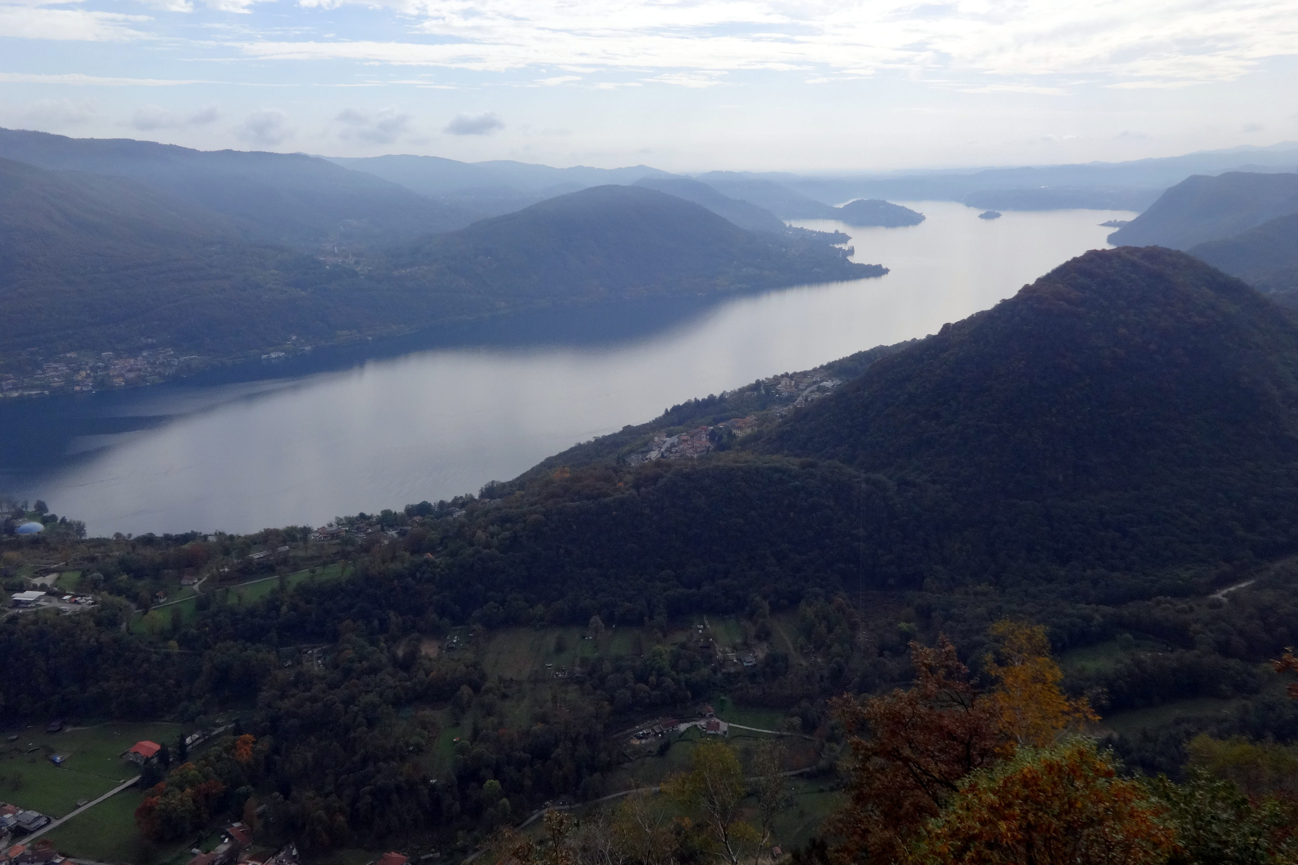 Lake Orta as seen from Quarna Sopra, Italy in autumn